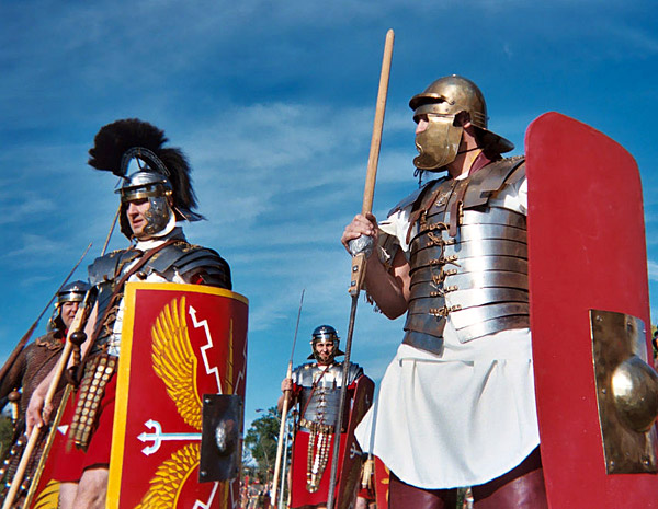 Soldiers of the Roman Army (on manoeuvres in Nashville, Tennessee). (with thanks to Tiberius Ambrosius Silvus of the Legio XXIV)